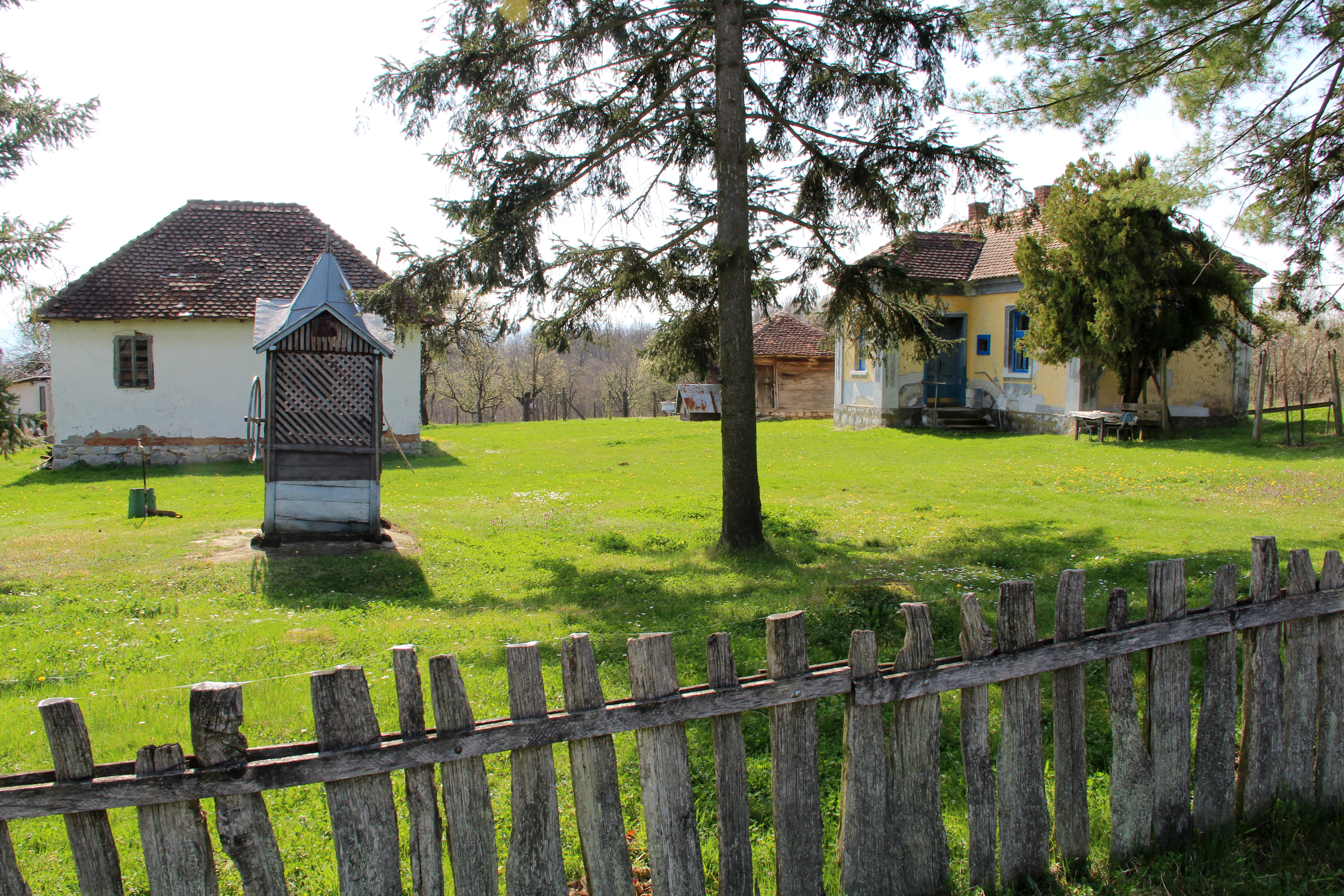 Klašnić Village - Municipality of Valjevo - Western Serbia - old rural household 1